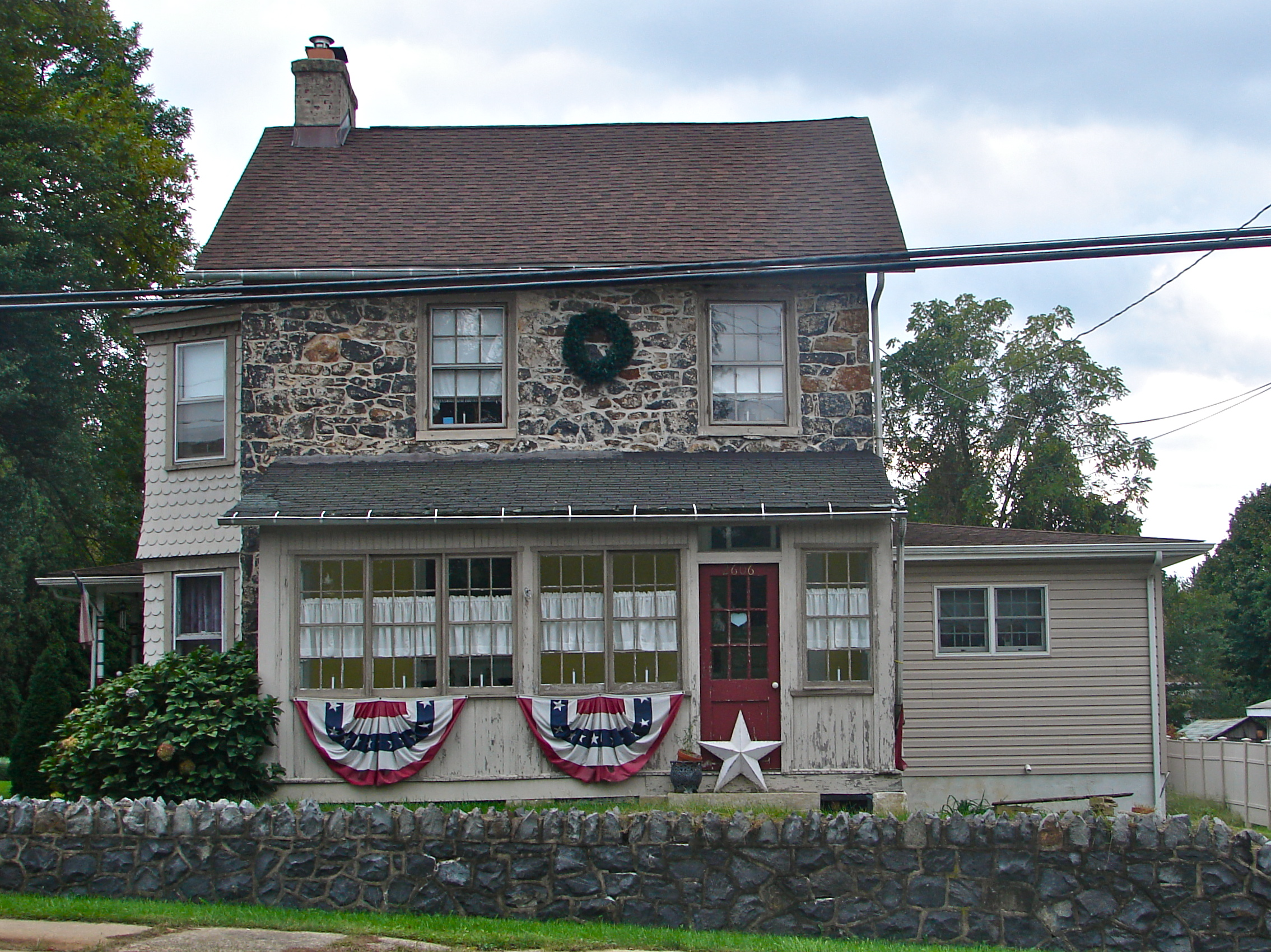 Justis-Jones House on the NRHP since August 28, 1998. At 2606 Newport Gap Pike, near Wilmington, Delaware.